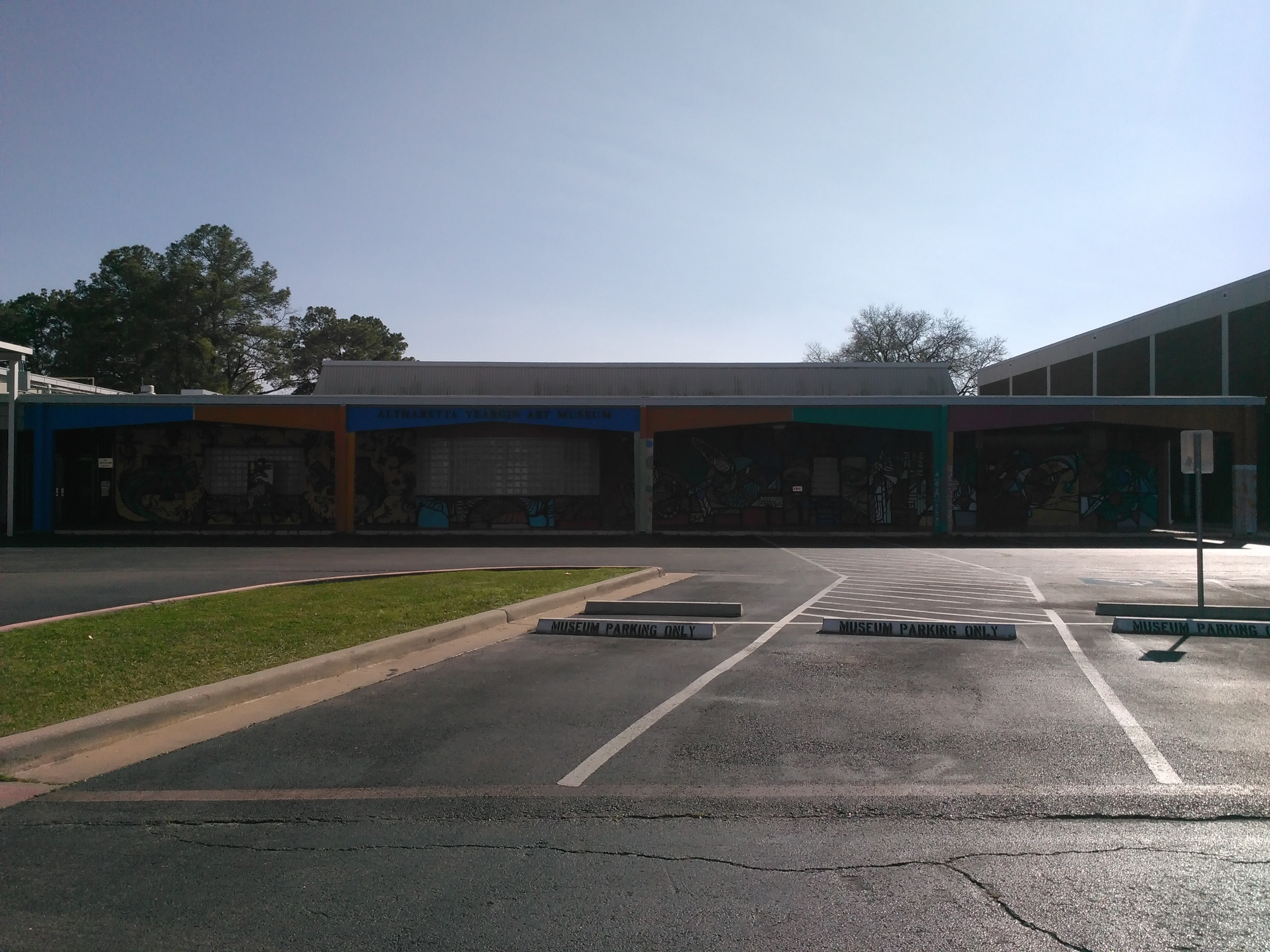 Altharetta Yeargin Art Museum - The Spring Branch Independent School District art gallery at Westchester Academy for International Studies